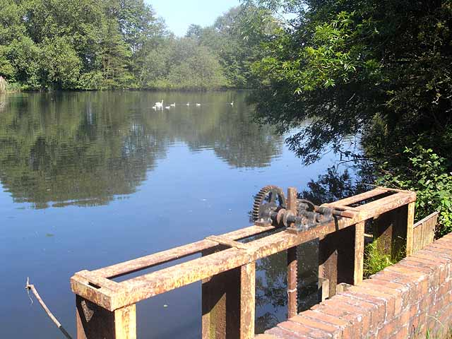 The mill pond and dam at Sambrook, near to Sambrook, Telford And Wrekin, Great Britain. With family of swans.